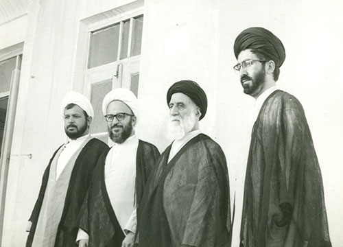 From right to left: Hadi Khosroshahi, Morteza Pasandideh, Naser Makarem Shirazi